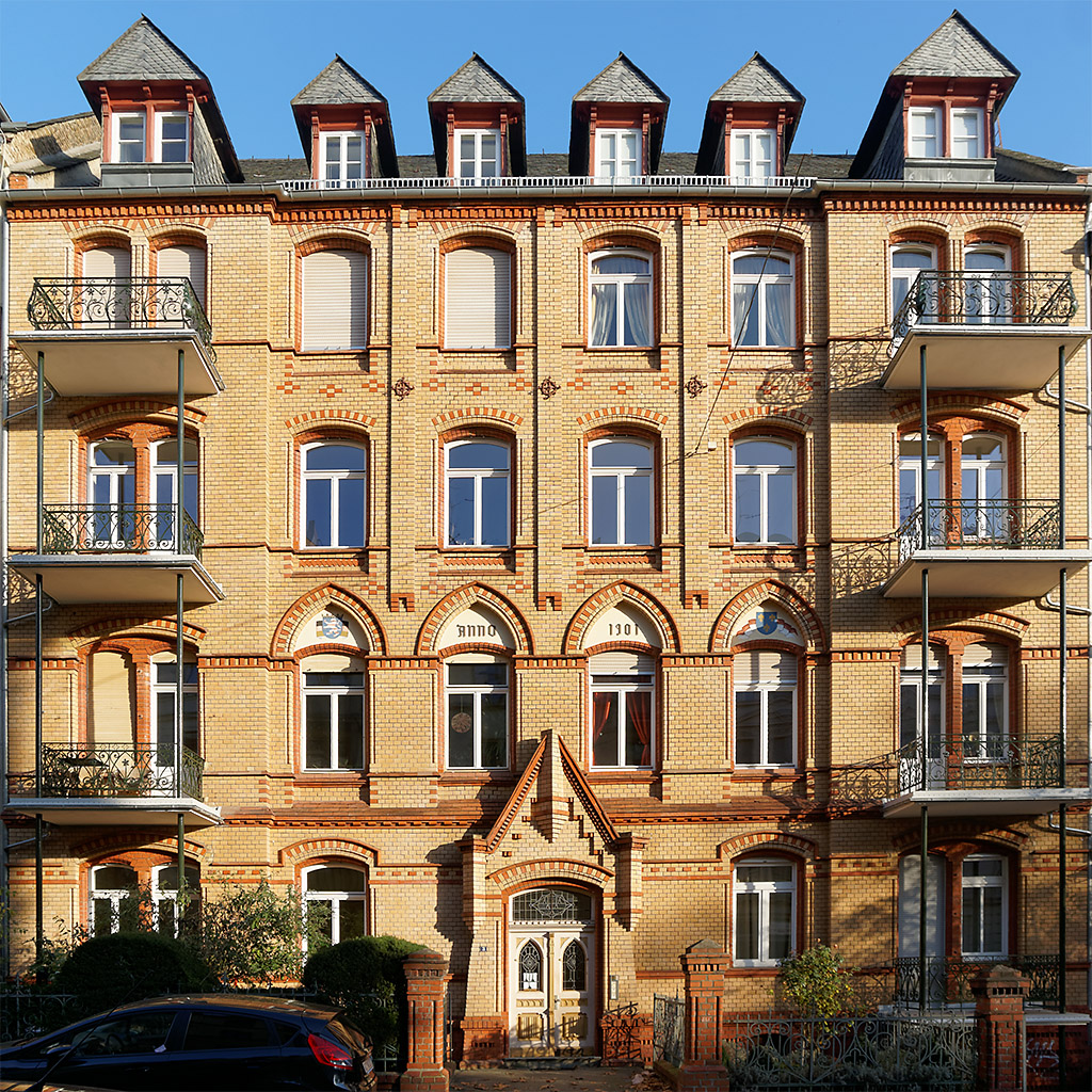 Building: Weißenburgstraße 3 in Feldherrenviertel in Wiesbaden-Westend